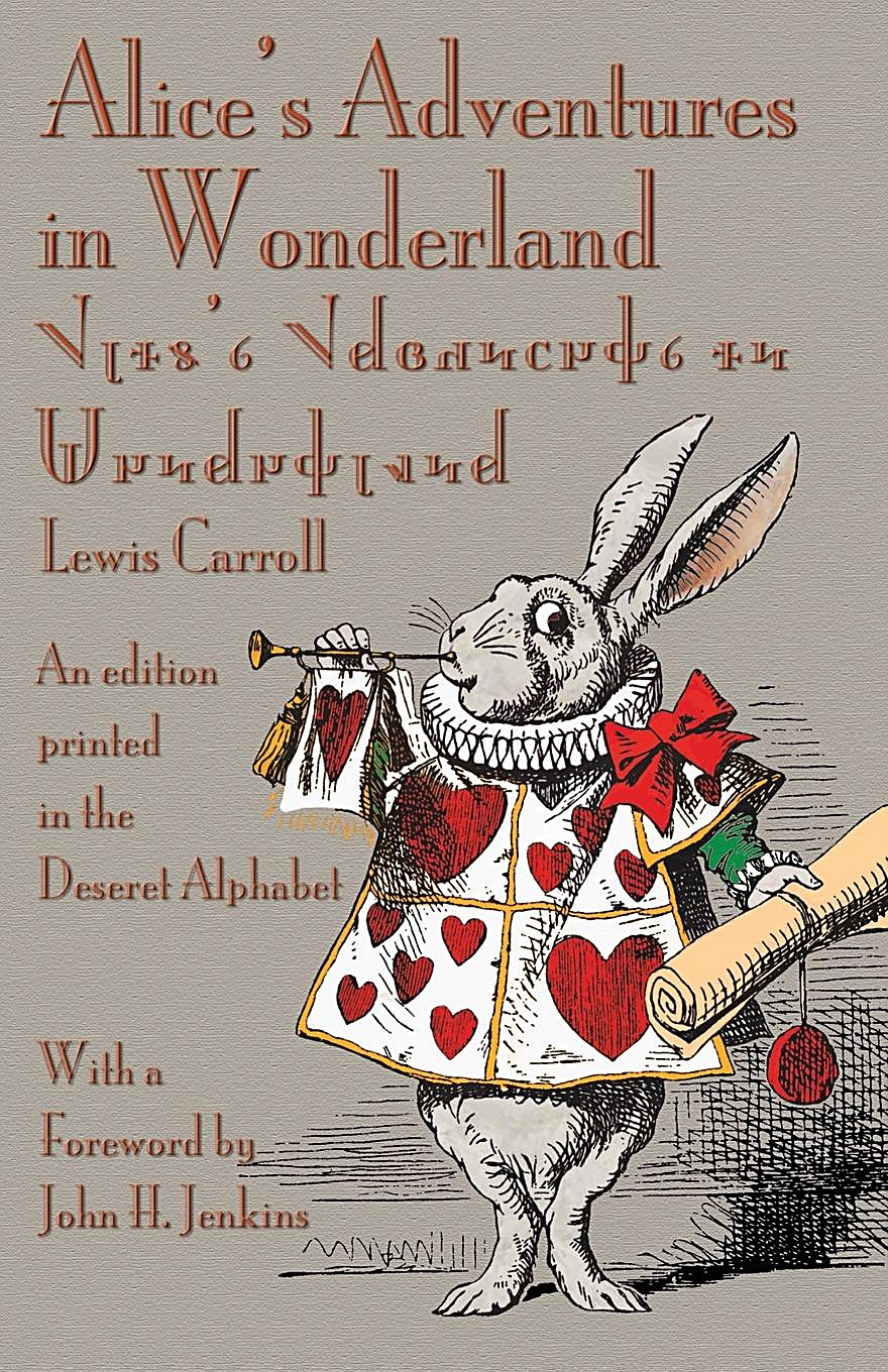 Lewis Carroll: Alice's Adventures in Wonderland, Cathair na Mart 2013 - transcription in the Deseret alphabet - front cover